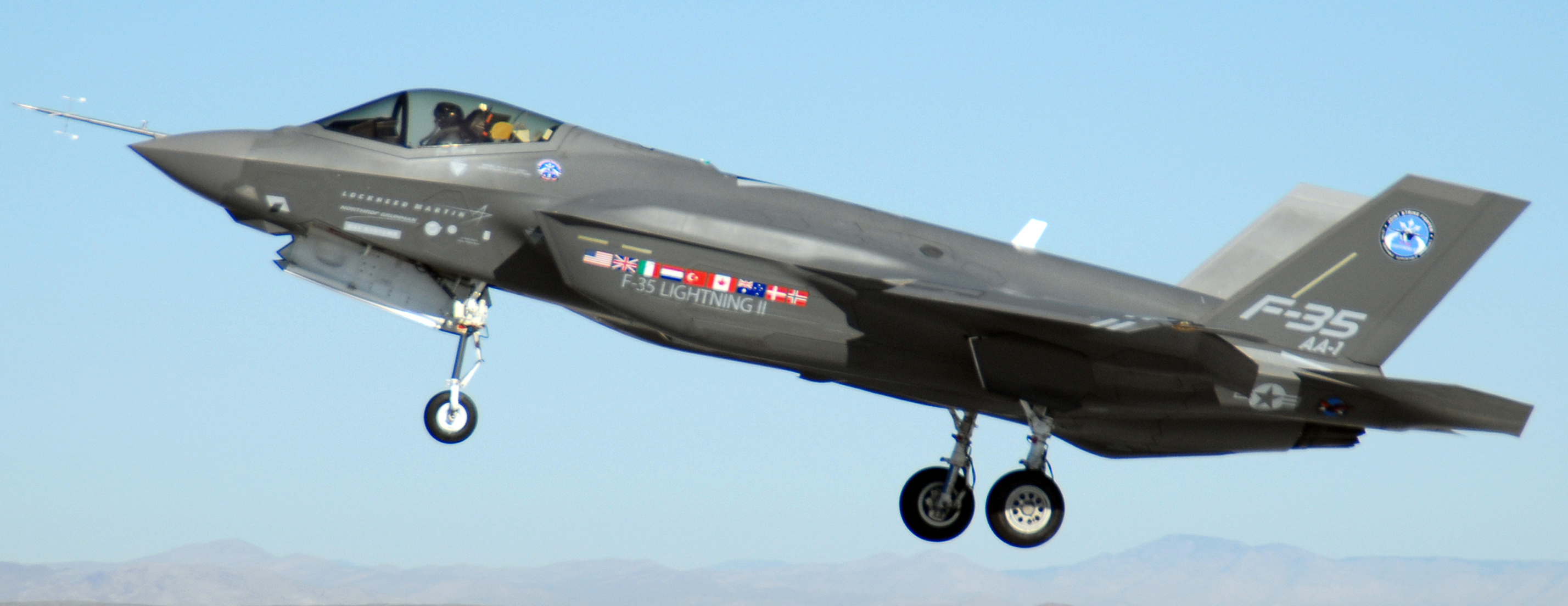 An F-35 Lightning II, marked AA-1, lands Oct. 23 at Edwards Air Force Base, Calif. The F-35 Integrated Test Force staff concluded an air-start test.